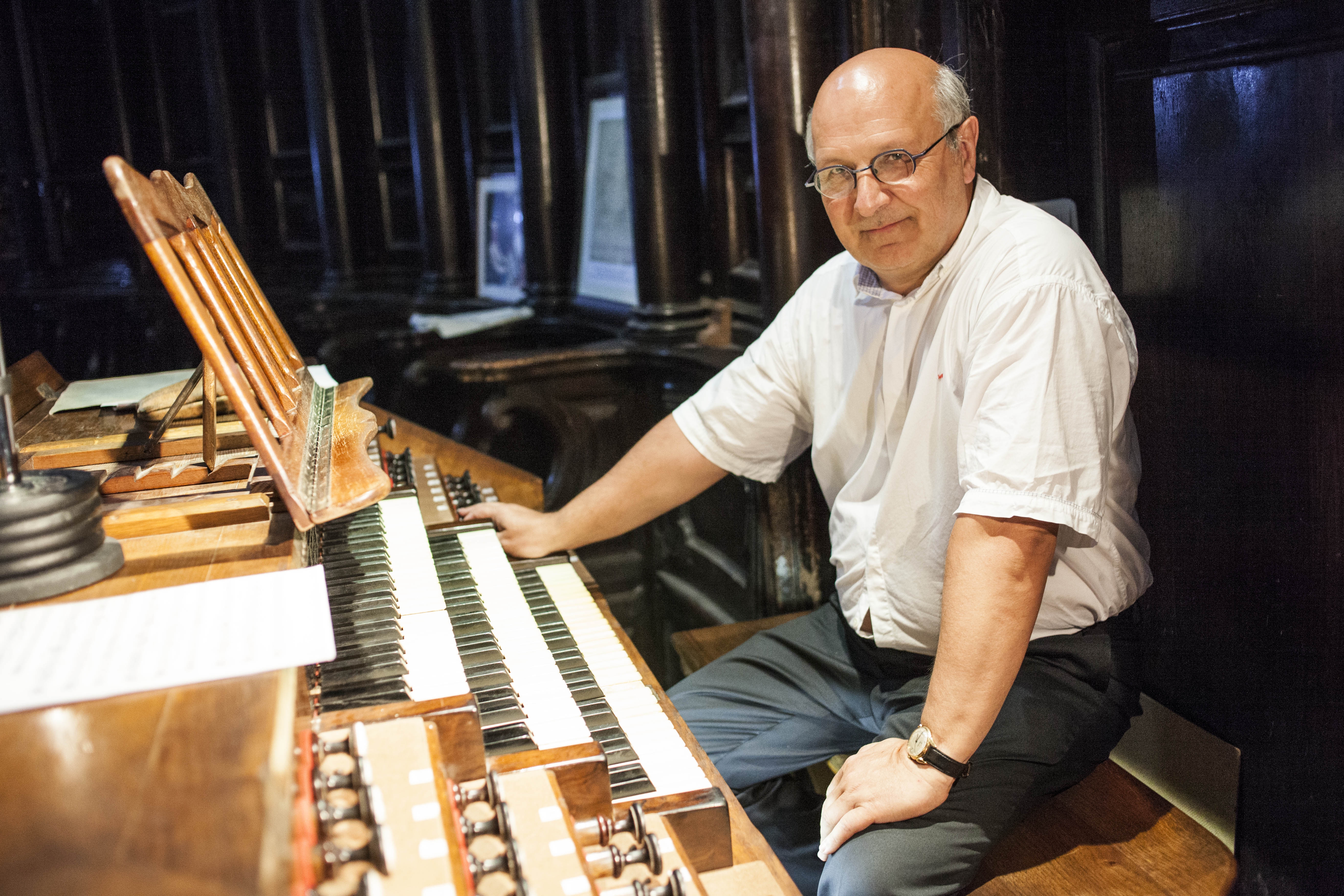 © Quincena Musical- Iñigo Ibáñez